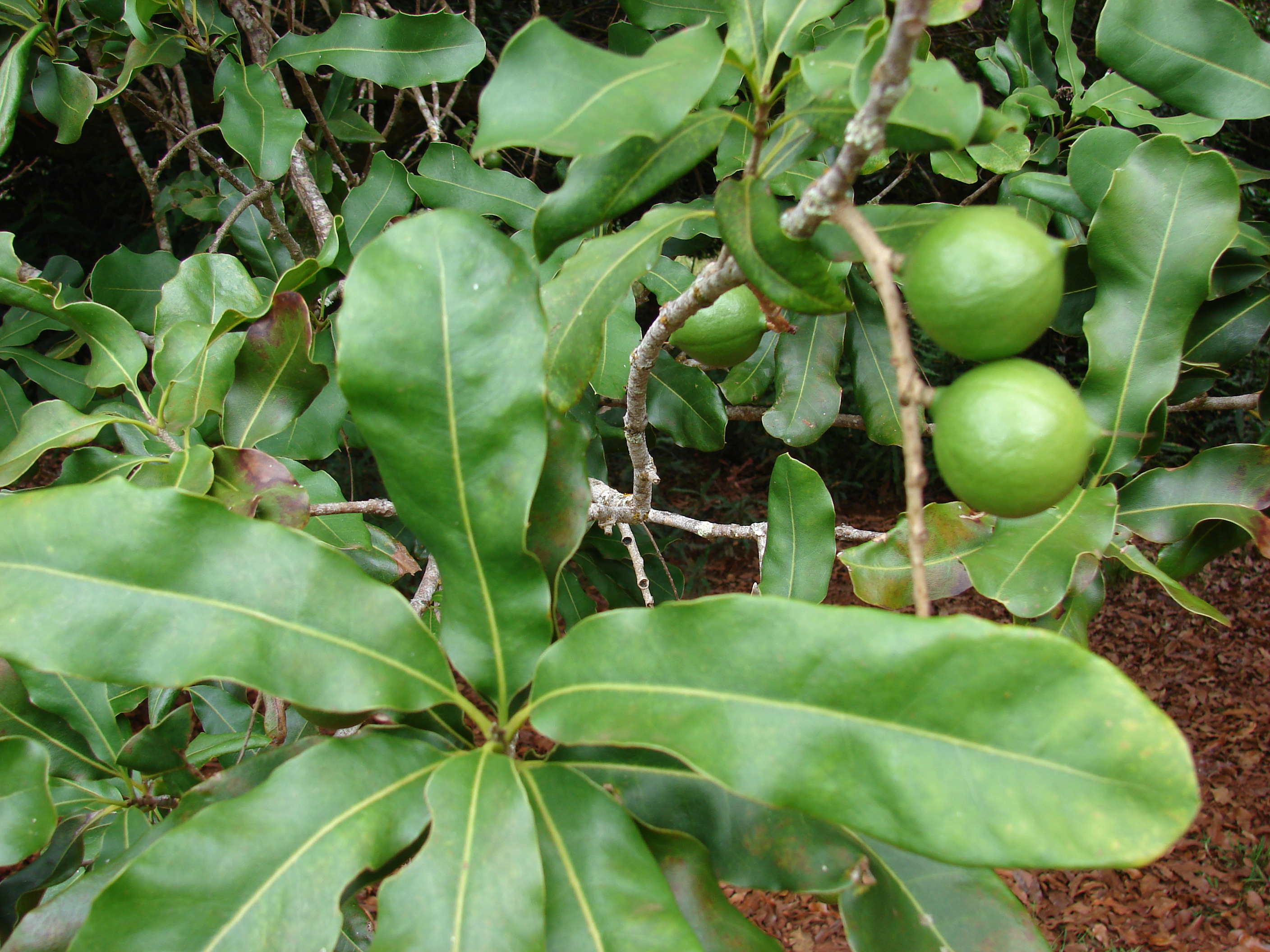 Macadamia integrifolia (leaves and immature nuts). Location: Maui, MISC HQ Piiholo